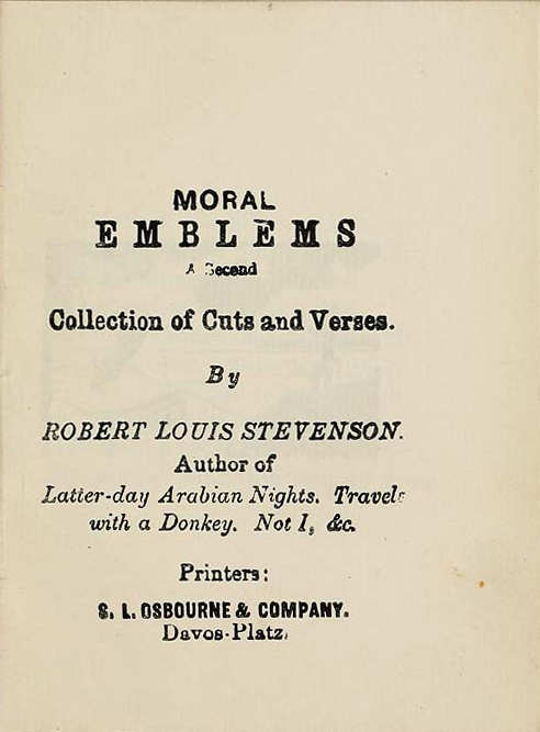 Works of Robert Louis Stevenson, Edinburgh, Longmans Green and Co, vol. 28, 1898, p. 105.